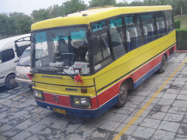 King Long's early model in Citybus livery, with a bodywork similar to Padane.